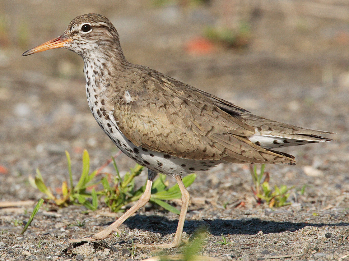 Description: Spotted Sandpiper (Actitis macularia), Bluffer's Park (Toronto, Canada, 2005; de: Drosseluferläufer Photograph: Mdf first upload in en wikipedia on 23:12, 13 June 2005 by Mdf Licence